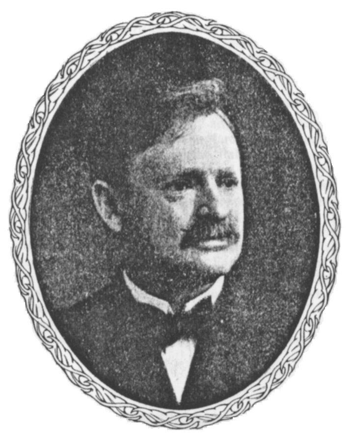 1906 photograph of Abraham White, founder and first President of the United Wireless Telegraph Company.